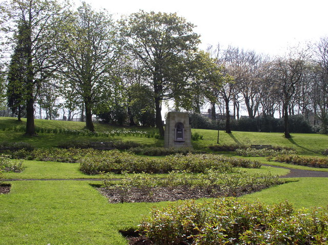 Thompson Park Memorial to James Witham Thompson, the park was created with money bequeathed to Burnley Corporation by Mr Thompson and opened 16th July 1930.